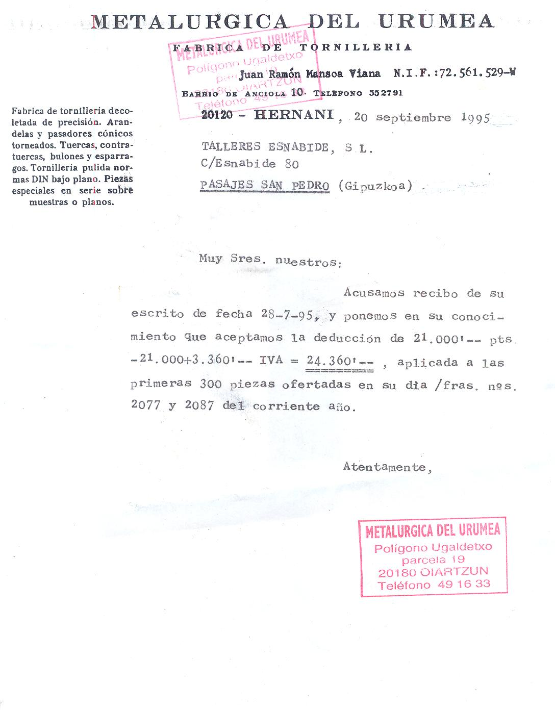 Commercial correspondence, Hernani, Basque Country.